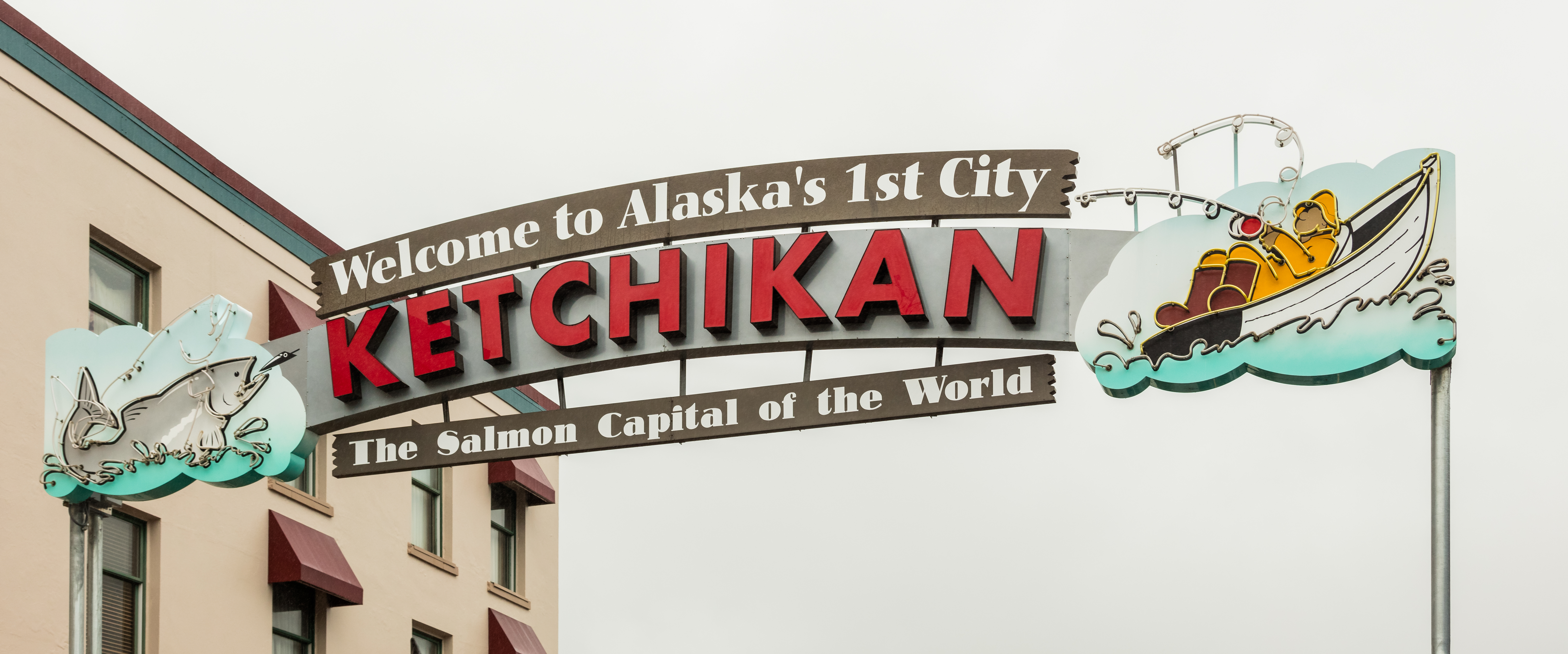 Welcome sign, Ketchikan, Alaska, United States